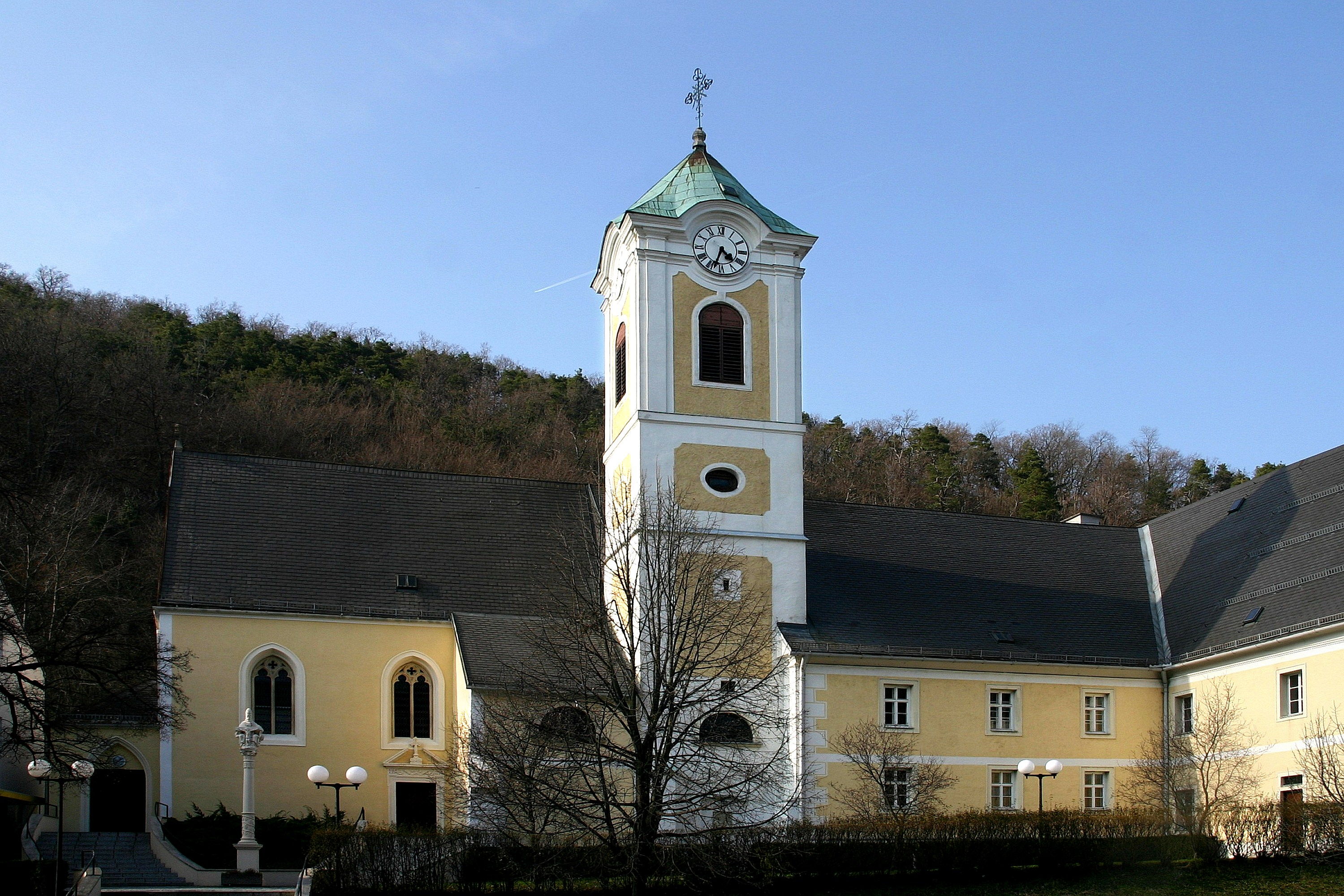 Parish church Maria Himmelfahrt - Forchtenstein Object location47° 42′ 41.34″ N, 16° 20′ 39.56″ E